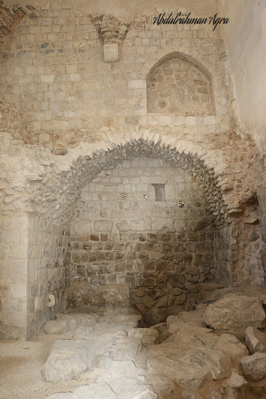 An old merchant`s hotel in Nablus